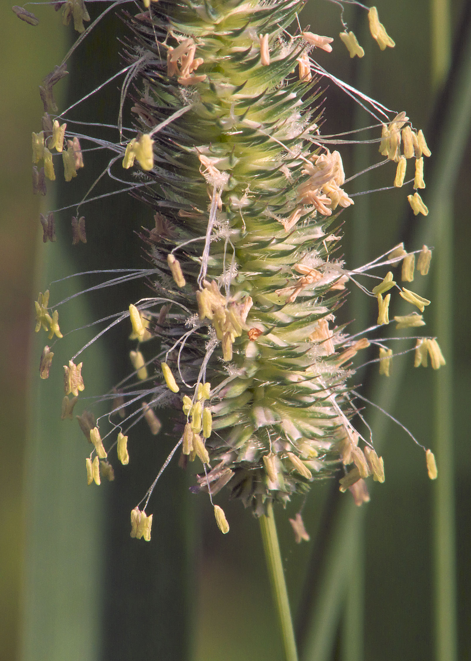 Phleum pratense subsp. pratense